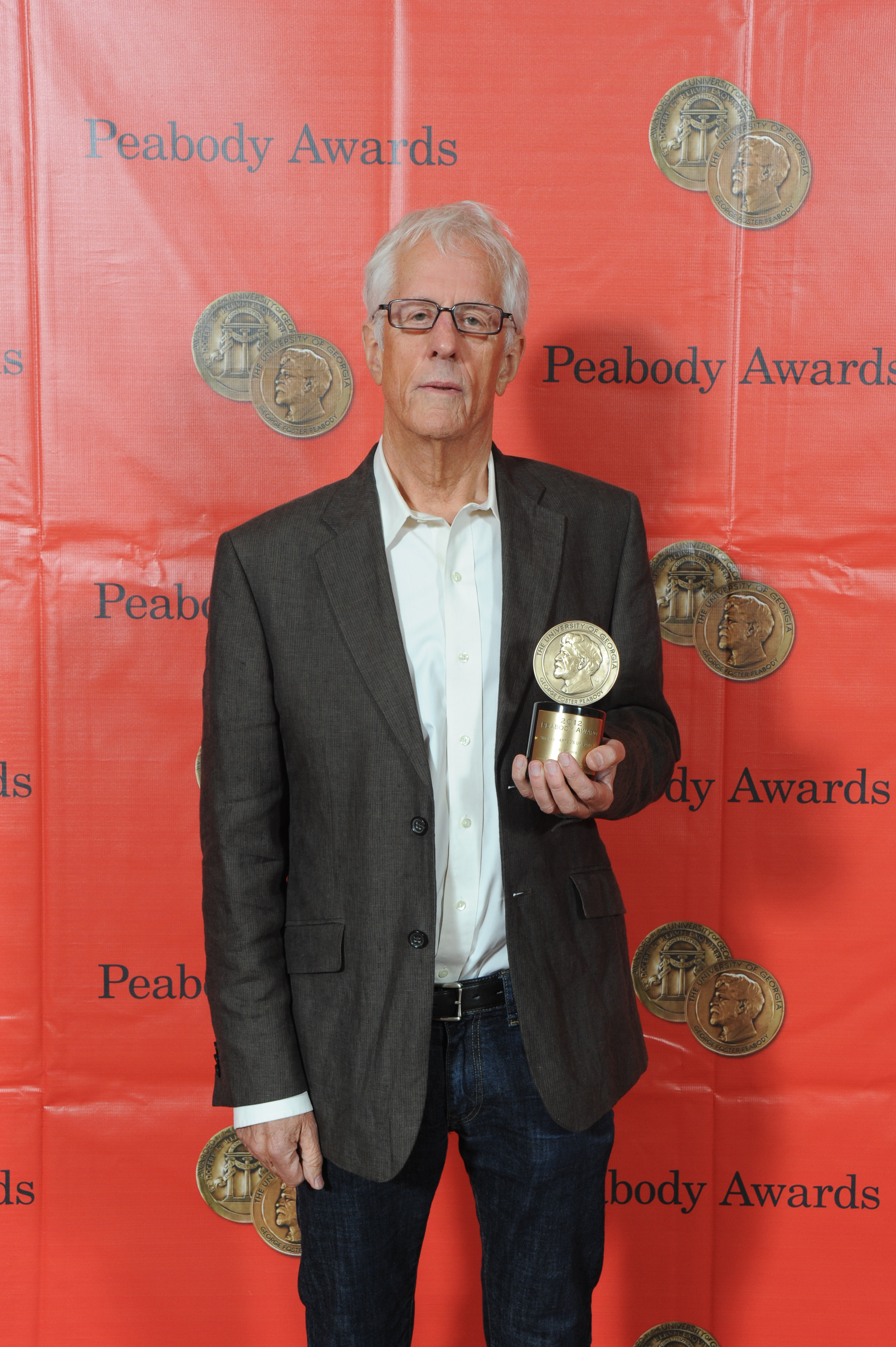 PHOTO CREDIT: ANDERS KRUSBERG / PEABODY AWARDS 72nd Annual Peabody Awards Luncheon Waldorf-Astoria Hotel May 20, 2013